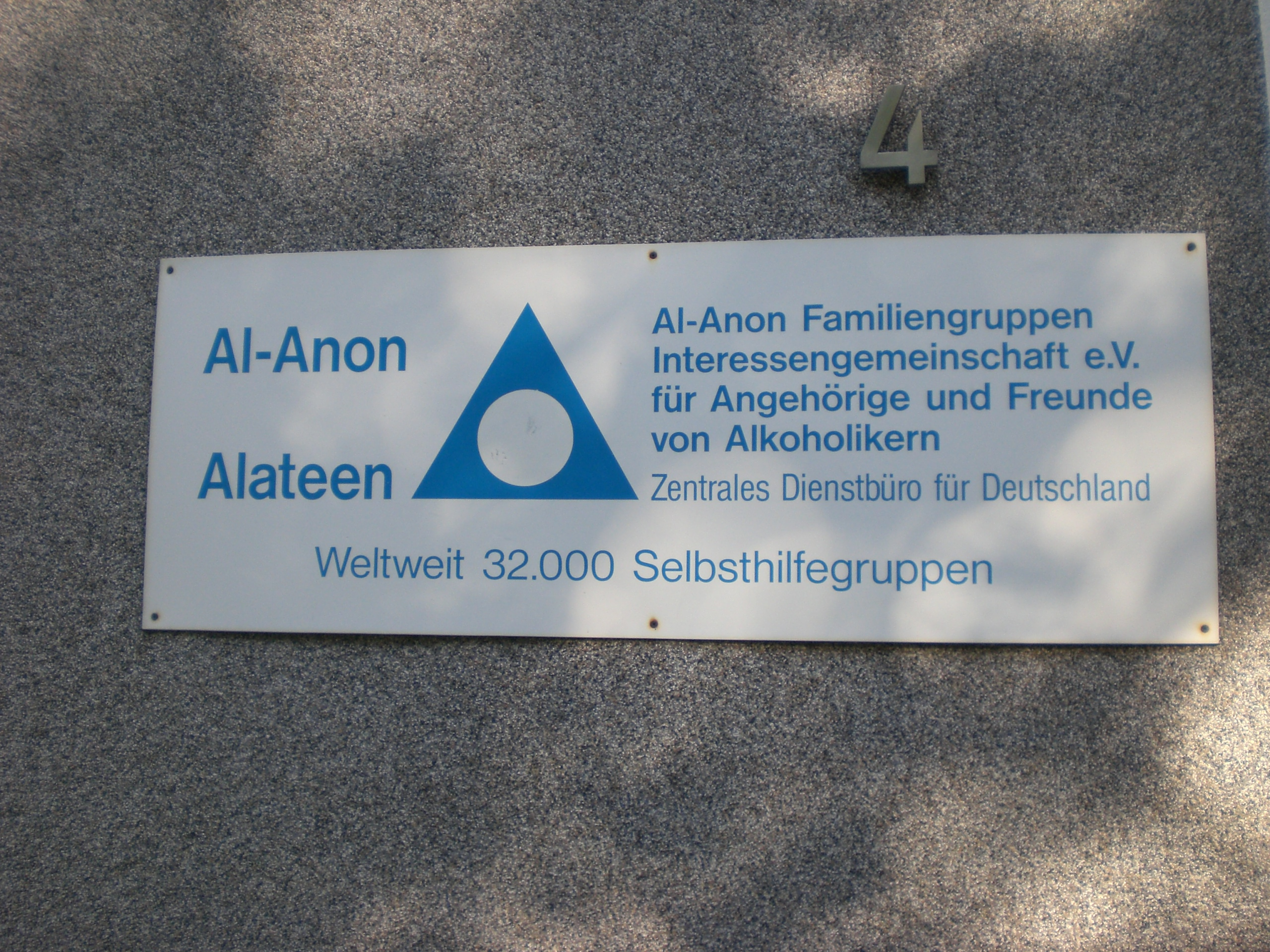 Self photographed figure of the Al-Anon Family Groups Office in Germany